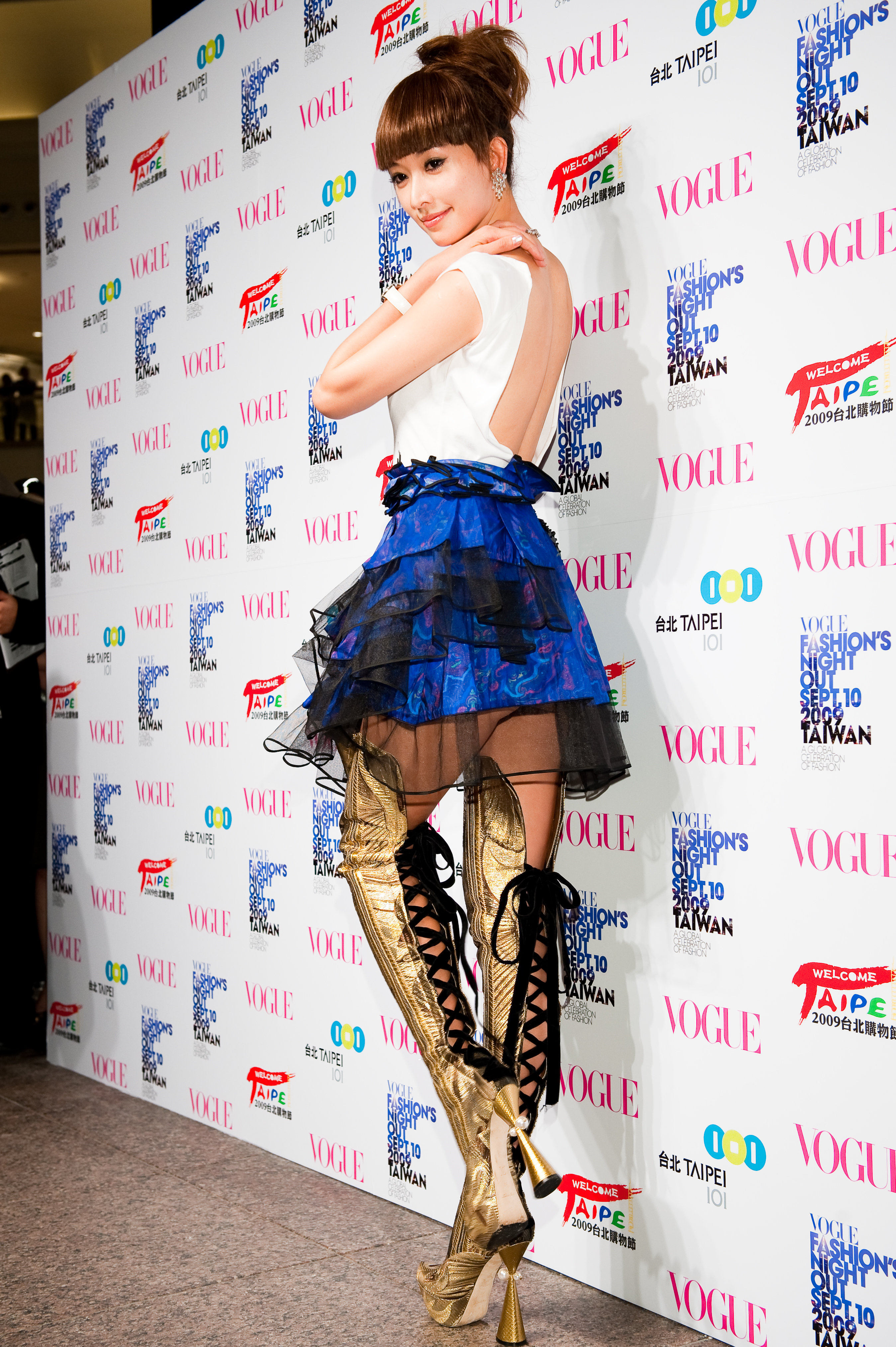 Chi-ling Lin attending the Vogue Fashion's Night Out, 10 September 2009, Taipei